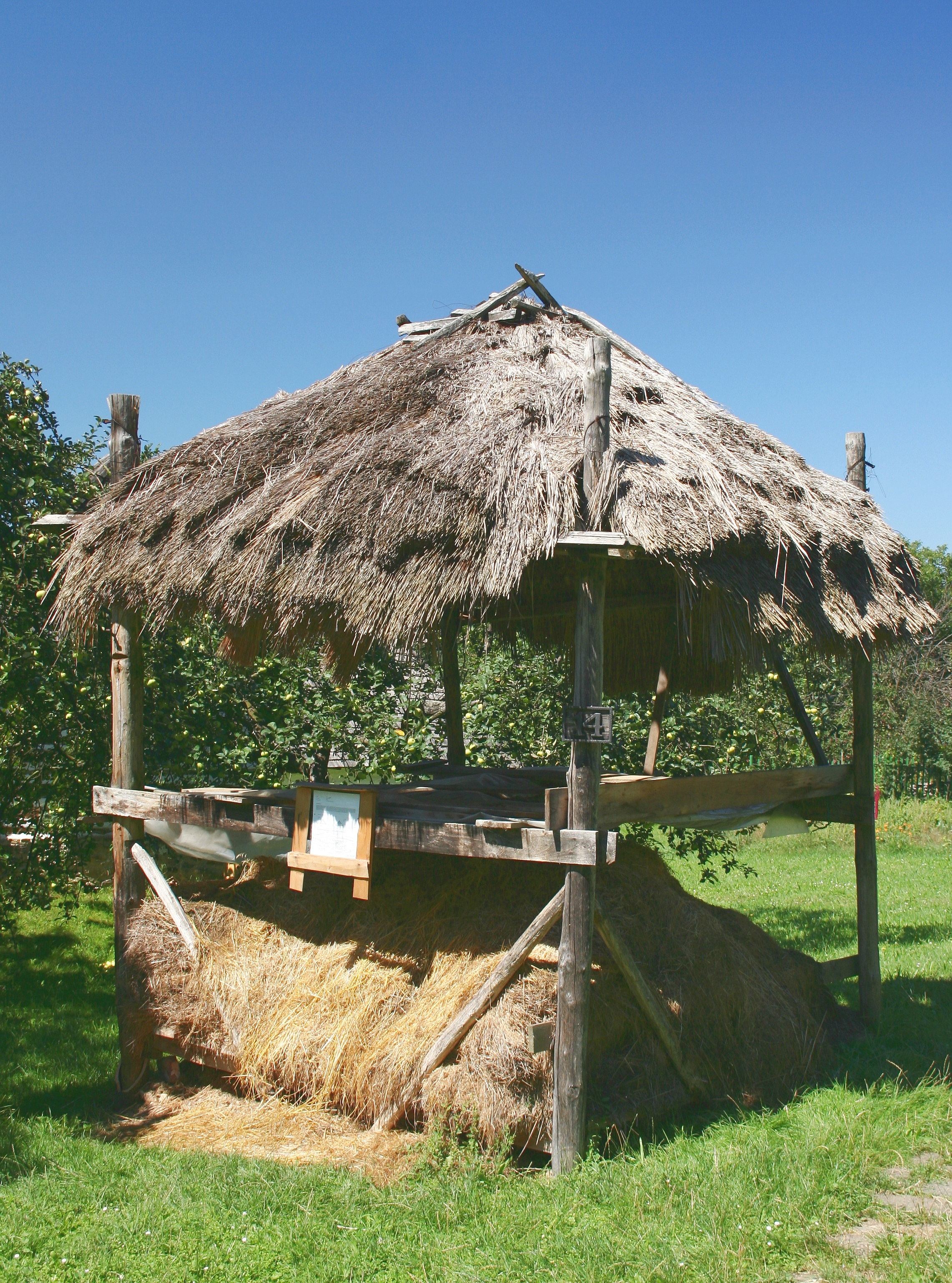 Open air museum in Humenné, Slovakia